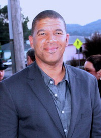 Peter Ramsey, the director of the DreamWorks Animation's animated feature film "Rise of the Guardians", at the the film's premiere at the 35th Mill Valley Film Festival